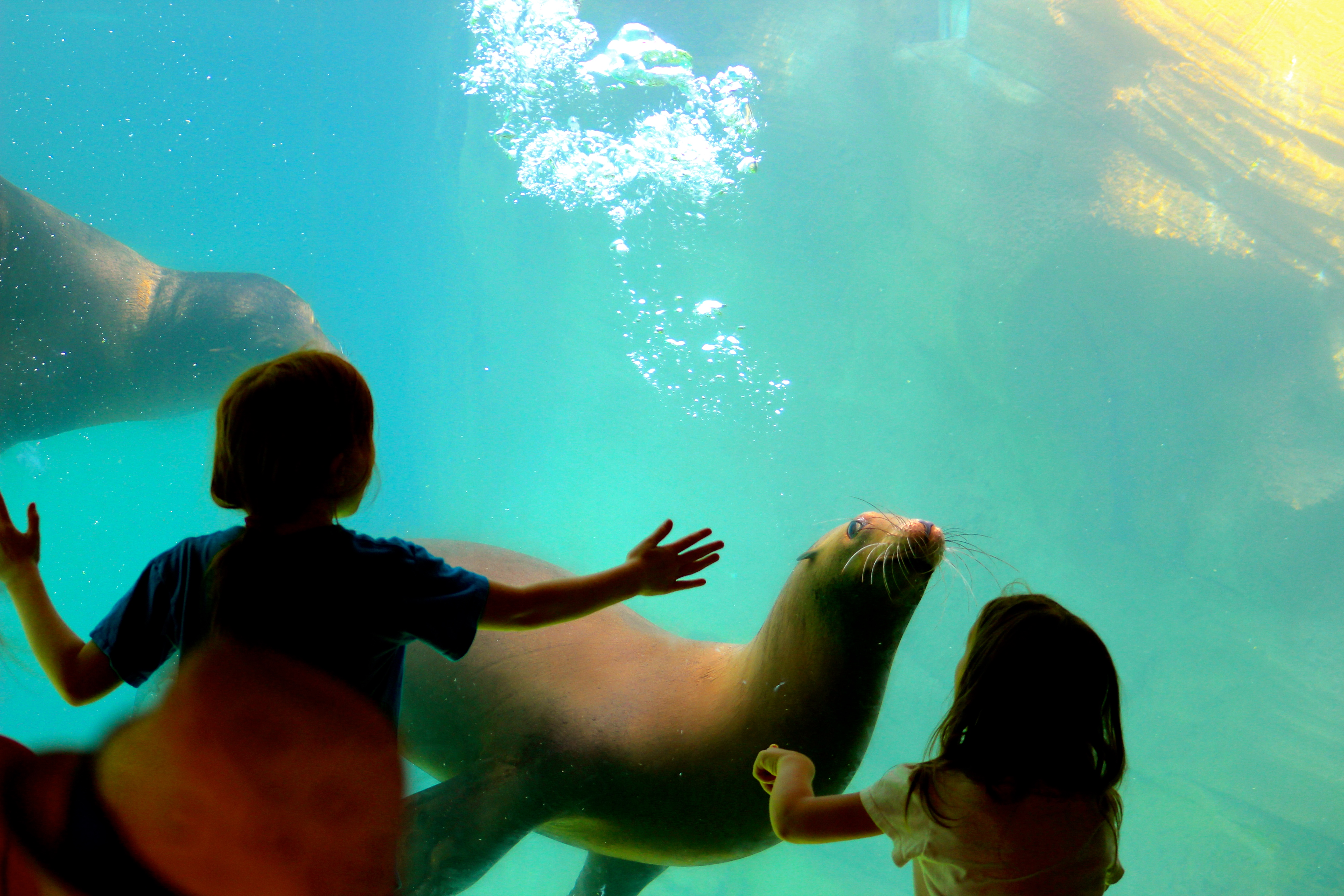 The under water viewing at Helmerich Sea Lion Cove allows a unique view of the 100,000 gallon salt water pool.